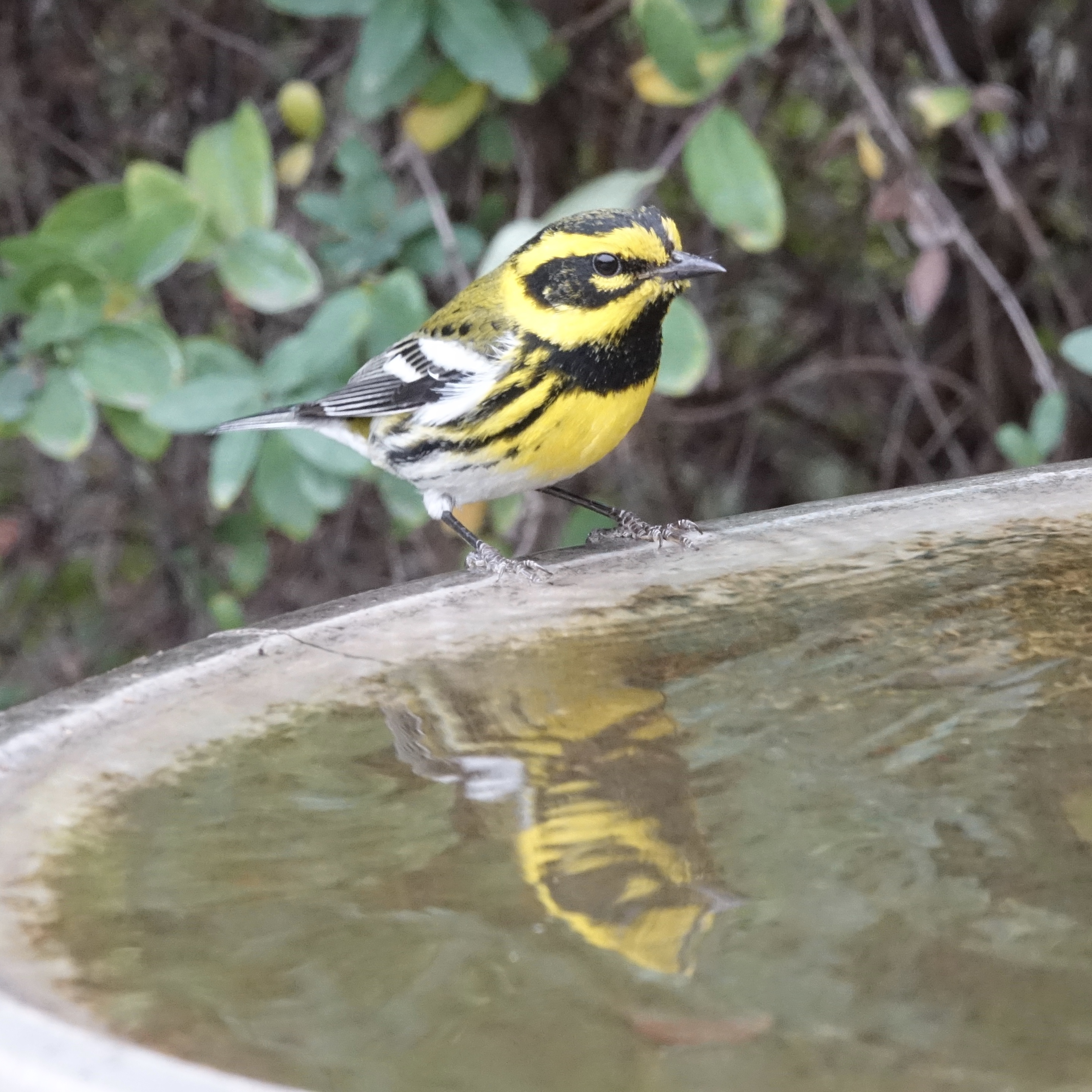 Townsend’s warbler